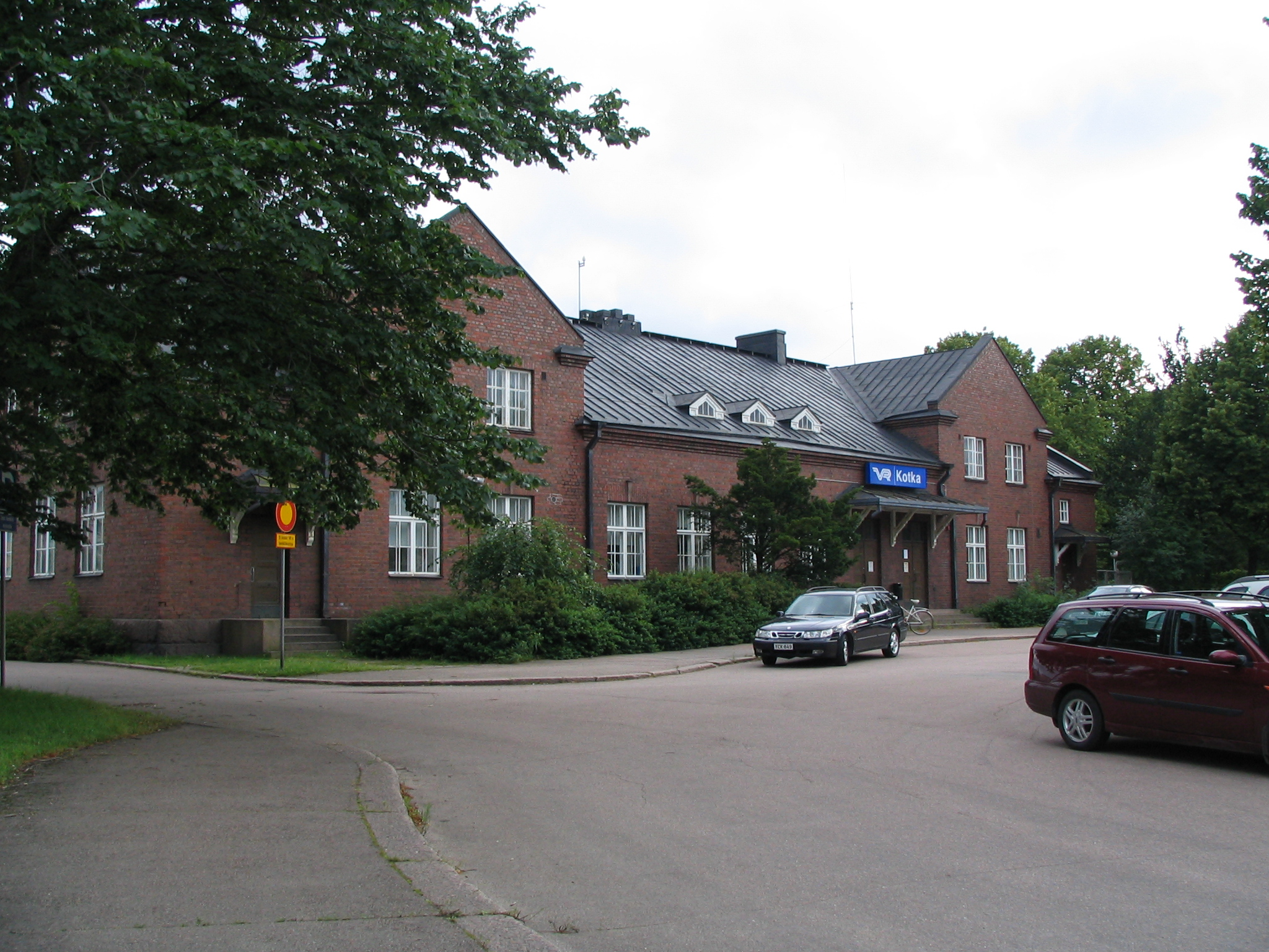 Railway station of Kotka, Finland